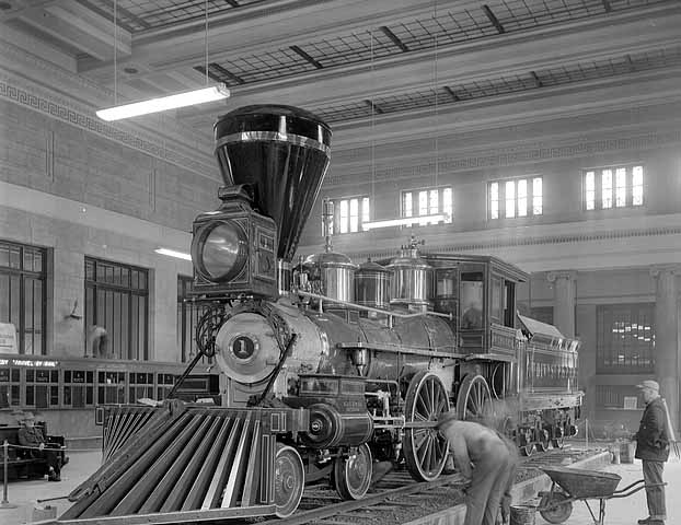 Union Depot historic photos and renovation project renderings. The locomotive William Crooks at the St. Paul Union Depot